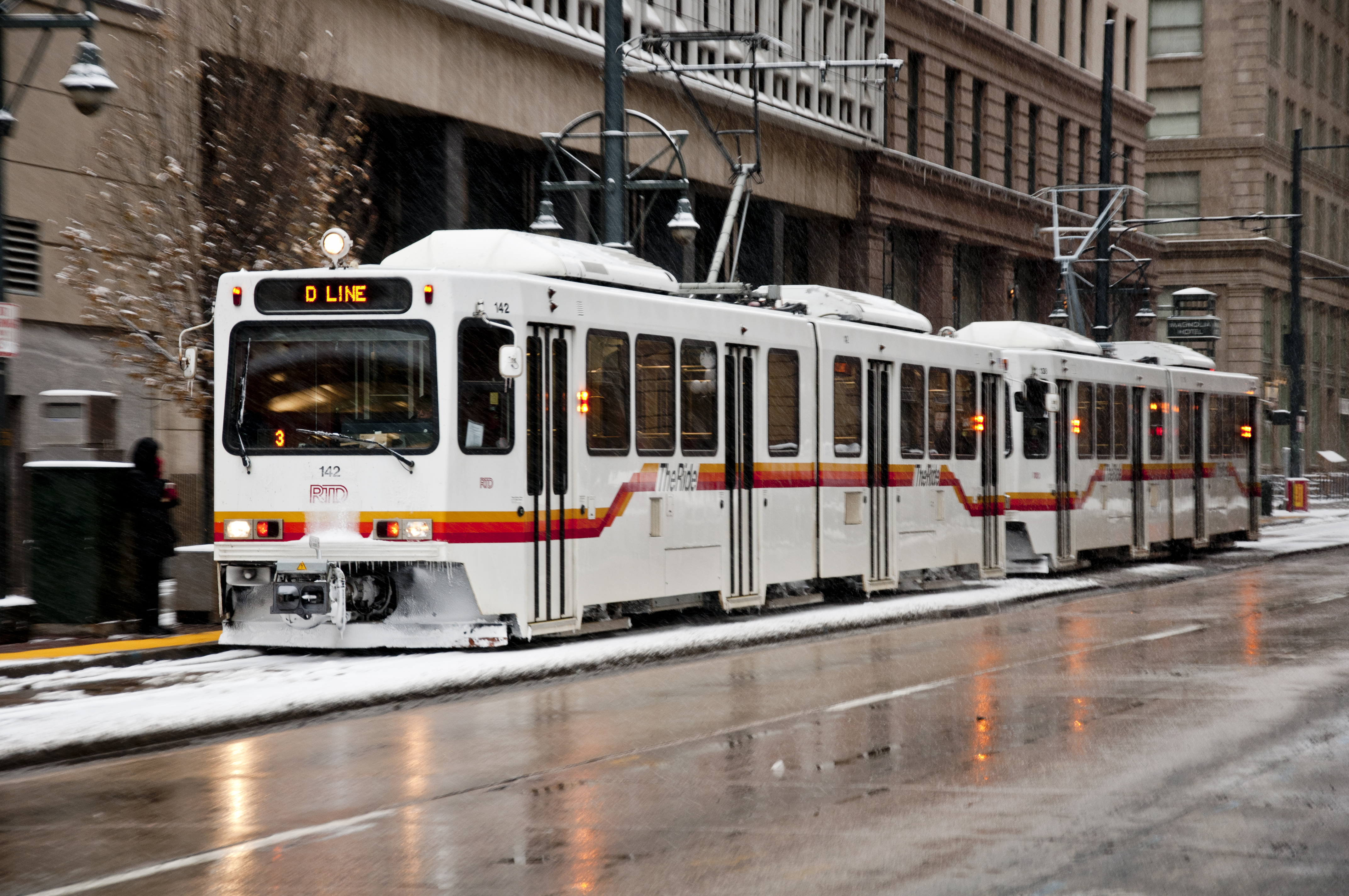 RTD light-rail train (Siemens SD-100 cars 142 and 138) on the D-Line, moving southwest on Stout Street between 16th and 17th streets, in downtown Denver.